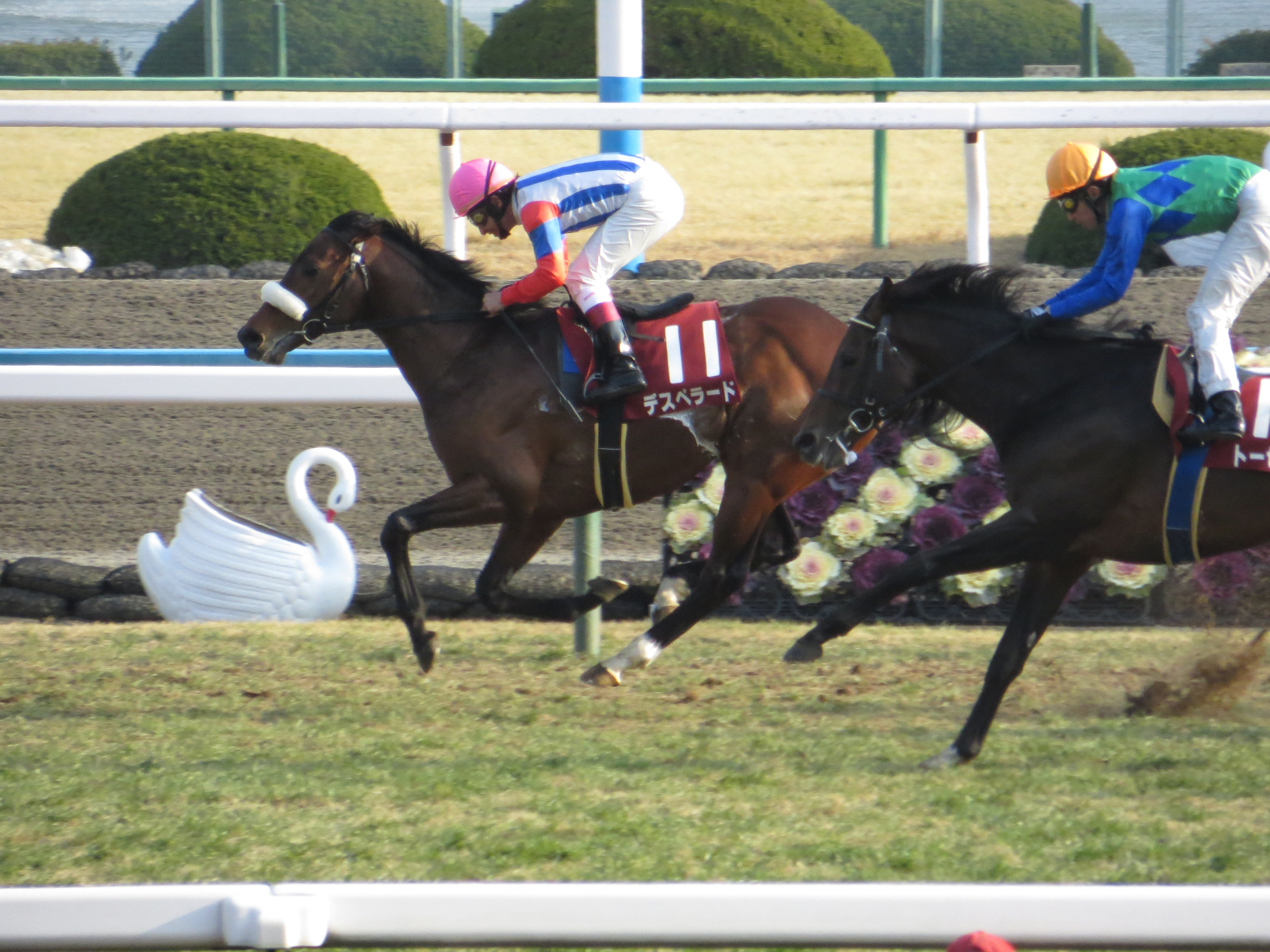 Desperado (Racehorse of Japan) in Kyōto Kinen.